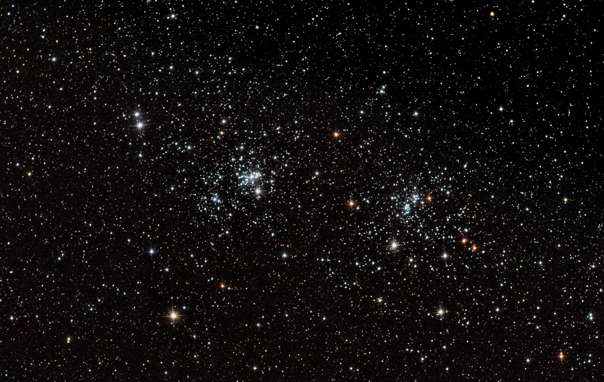 Image taken with a Nikon D300 on an 8" Newtonian reflector.